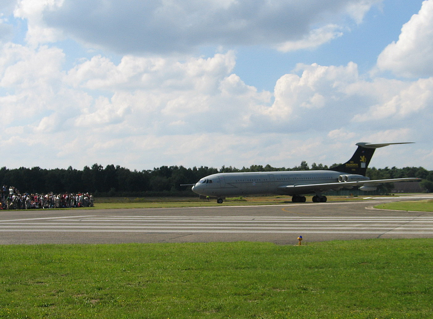 Vickers VC10 at the Belgian Air Force base of Kleine Brogel